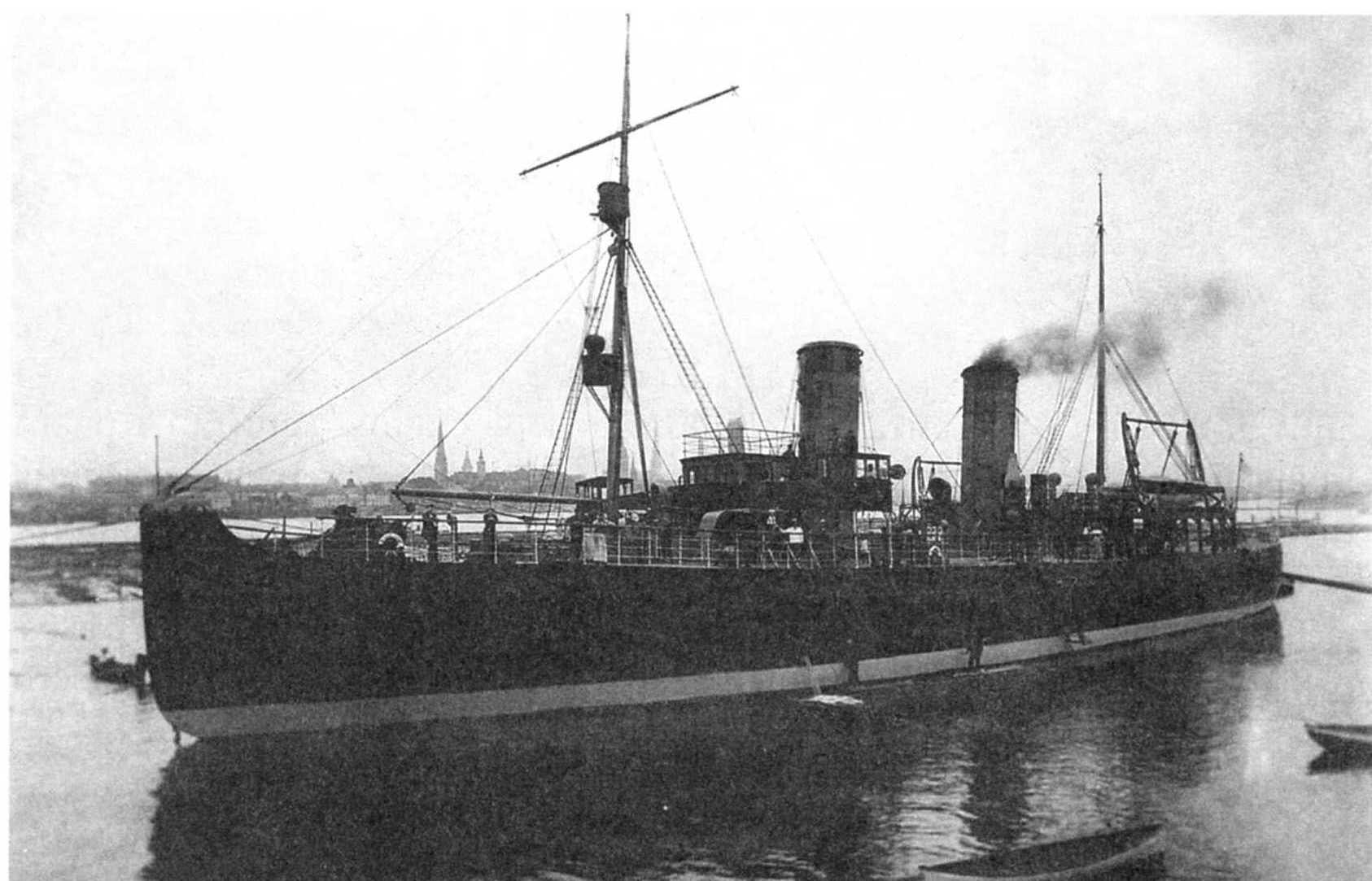 Imperial Russian icebreaker Tsar Mikhail Feodorovich. Today museal ship in Tallinn, Estonia, under the name Suur Tõll.